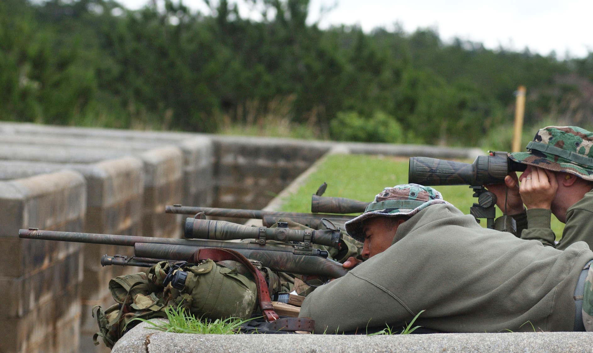 Special Reaction Team (SRT) members US Marine Corps (USMC) Sergeant Shannon C. Moye (foreground), sites through the scope on his 7.62mm M-86 sniper rifle as Corporal Eddie L. Tesch, uses a spotting scope to read targets taken out during sniper. (Released to Public)